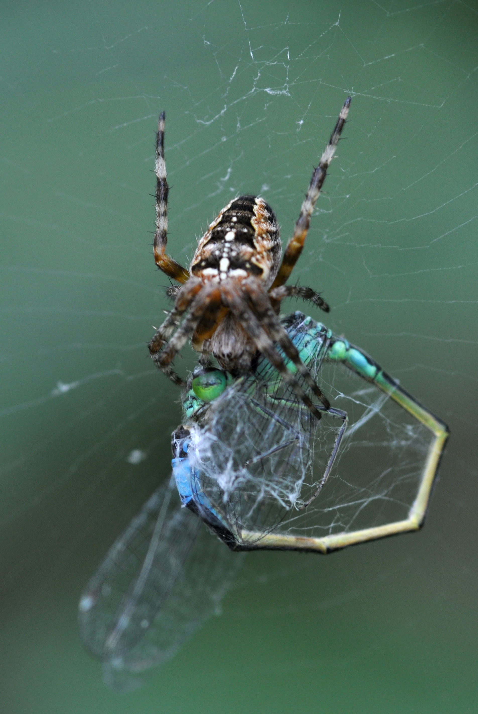 European garden spider devouring Blue-tailed Damselfly in Kirchwerder, Hamburg